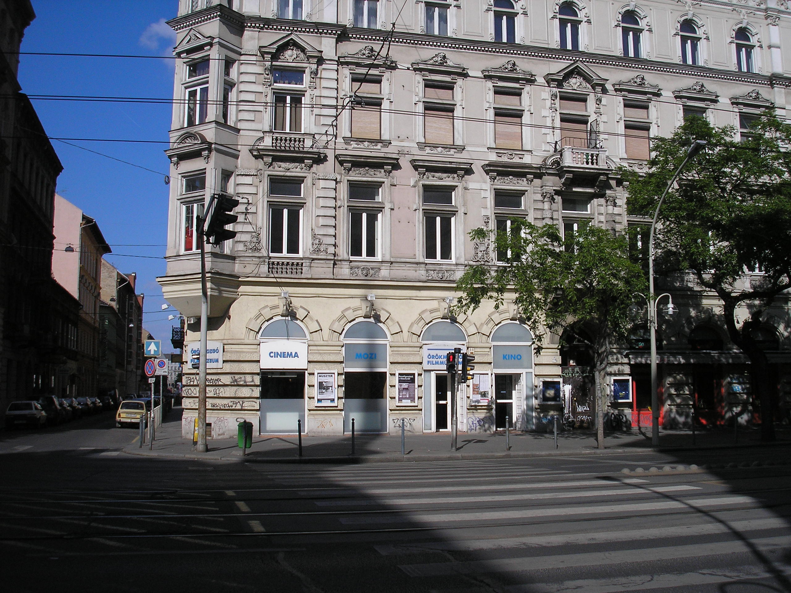 "Örökmozgó Filmmúzeum" cinema in Budapest